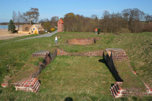 The ruins of Dronningholm Castle near Arresø in Denmark